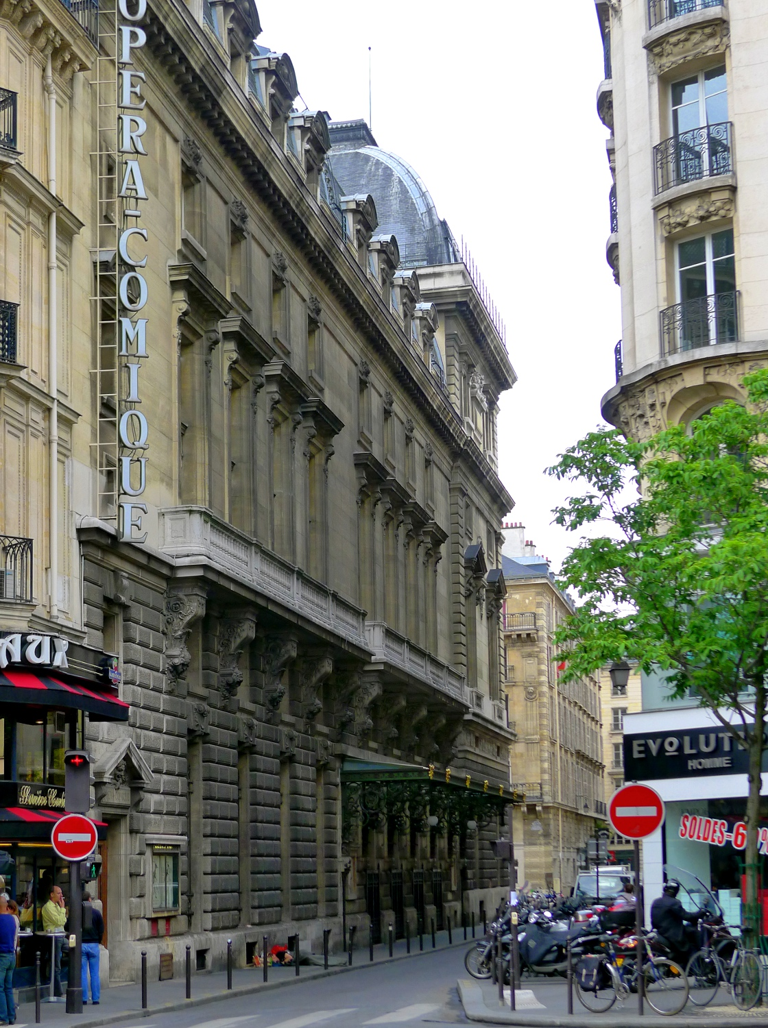 Marivaux street - Paris